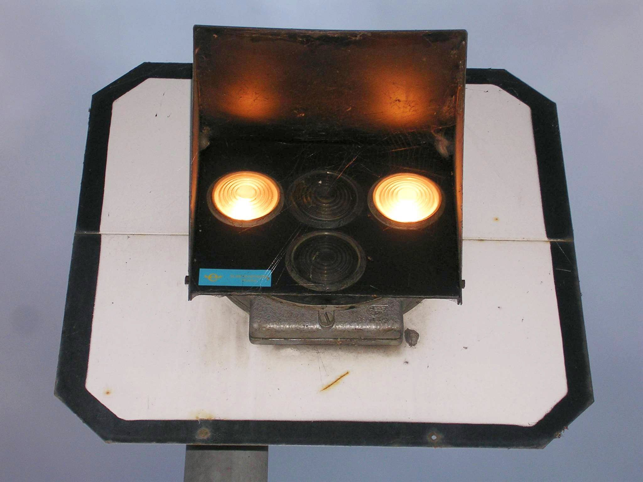 Tram signal „halt!“, Prague.